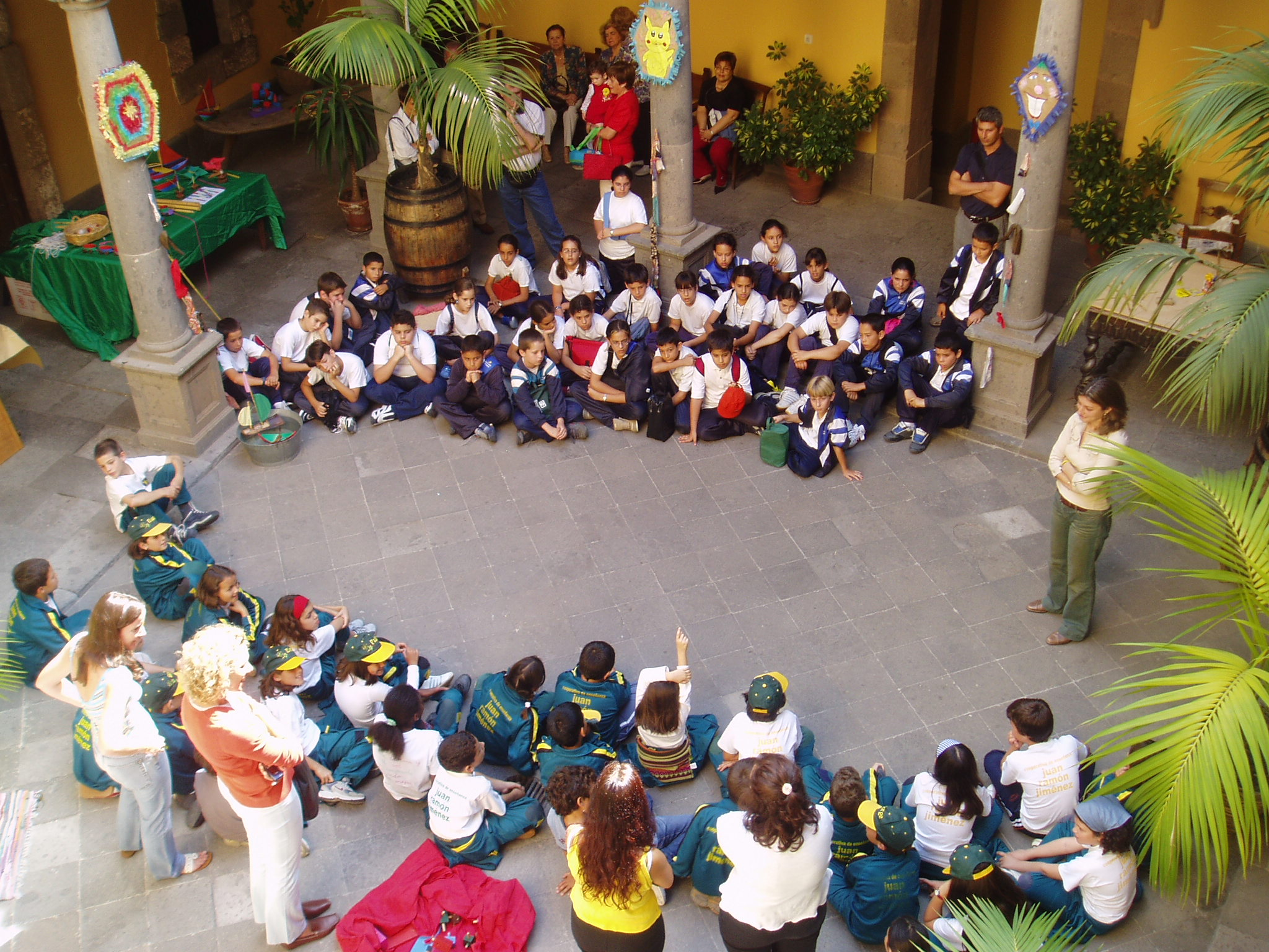 Casa de Colón